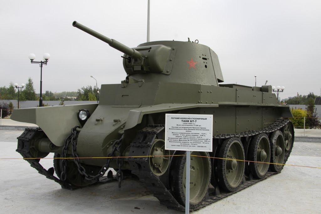 Verkhnyaya Pyshma Tank Museum 2011